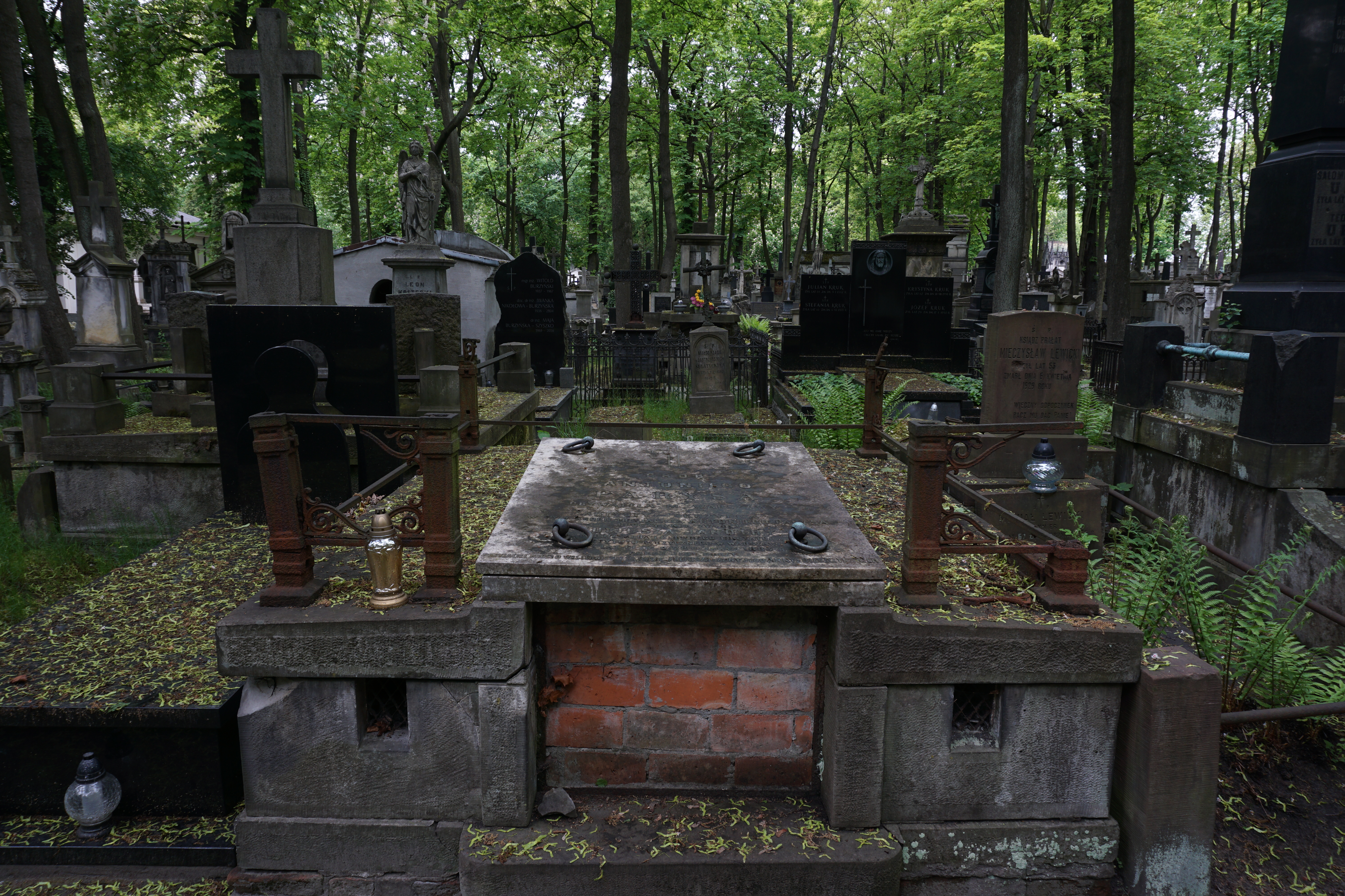 The grave of Juliusz Janotha at the Powązki Cemetery (section 14, row 3, grave 9, 10)